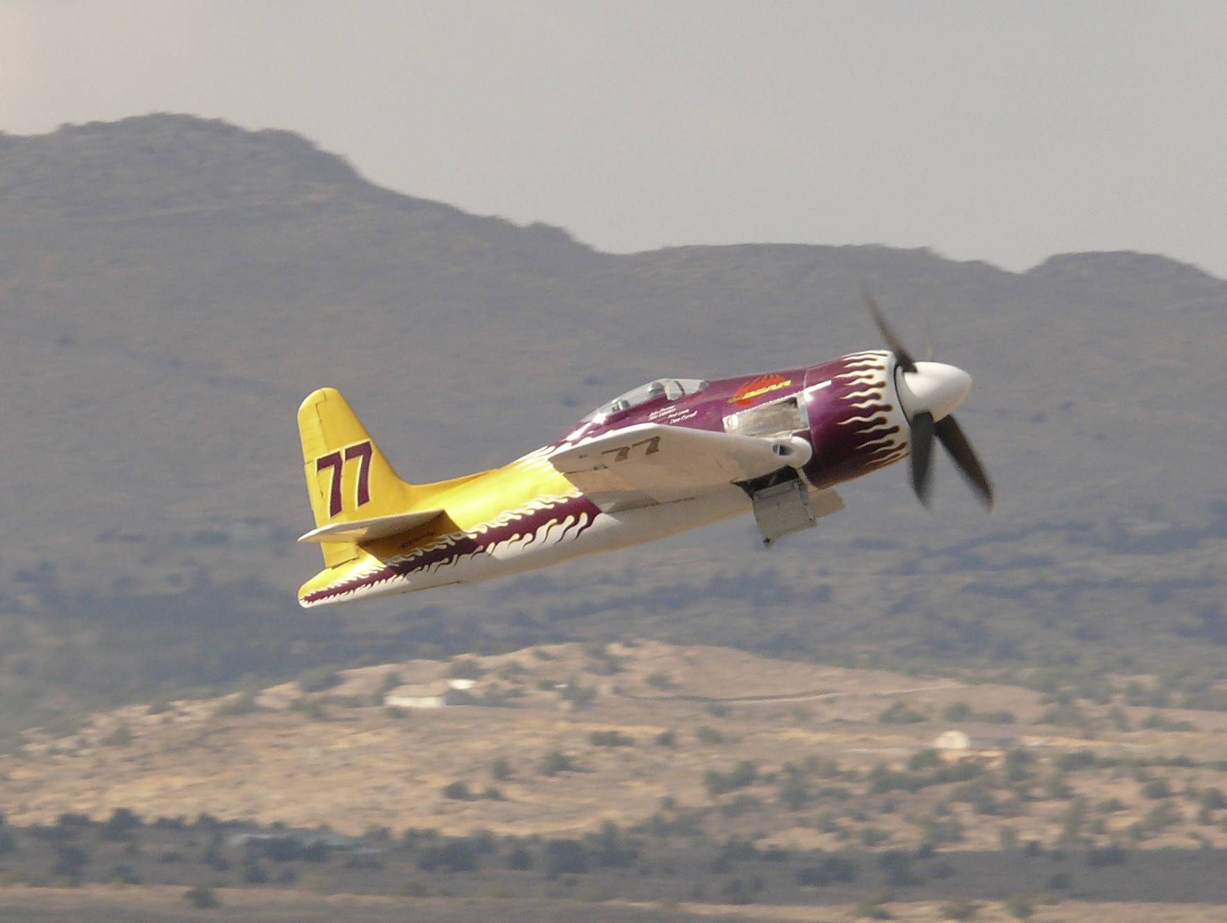 Rare Bear, #77, Reno Air Races 2007